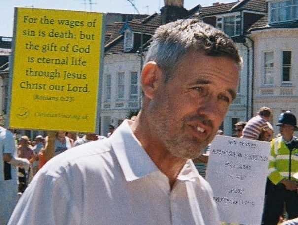 Stephen Green from Christian Voice in Brighton UK on 4th August 2007